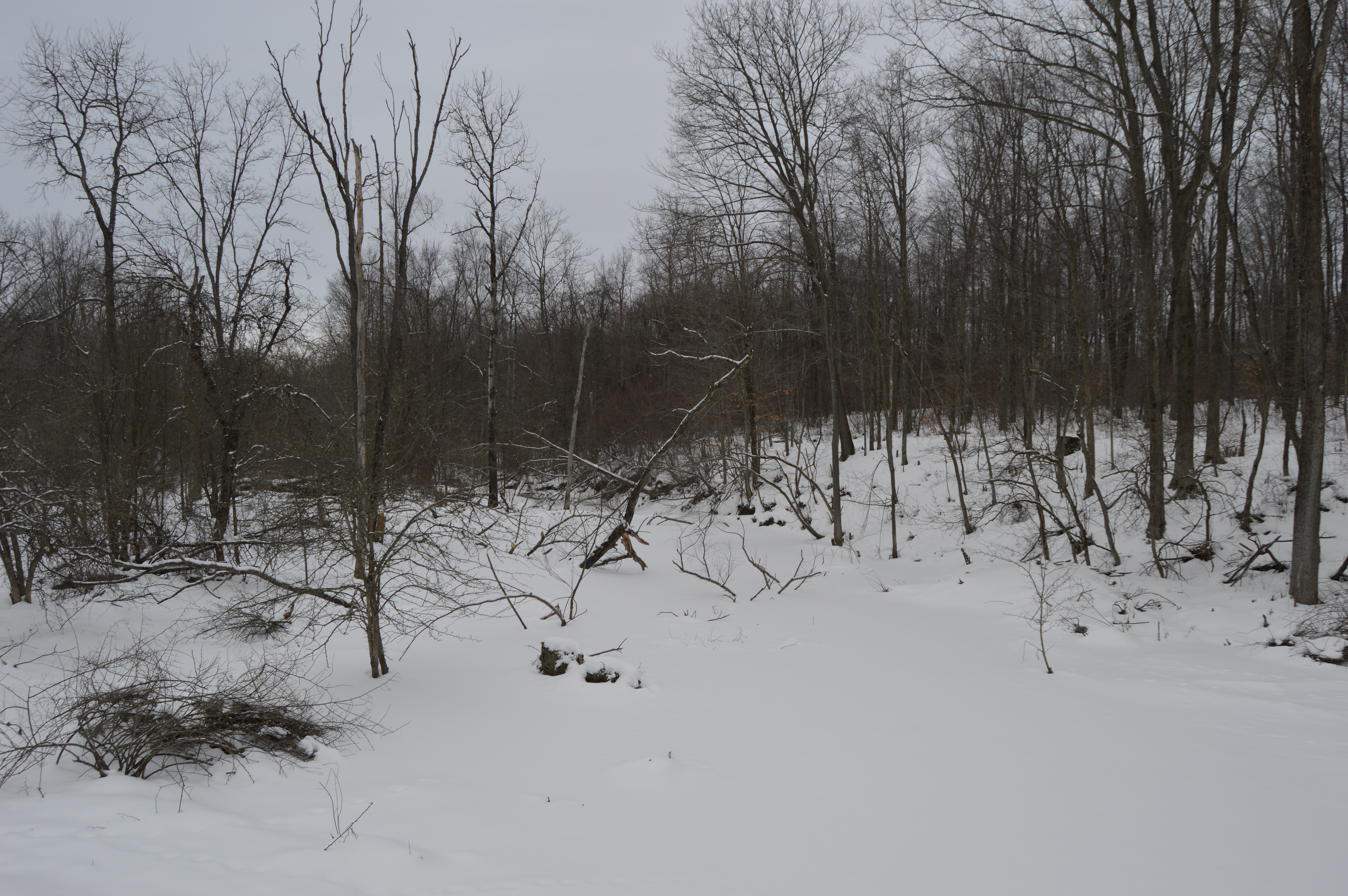 Looking north along the frozen Stone Run from Philadelphia Road northwest of Springboro in Beaver Township, Crawford County, Pennsylvania, United States.